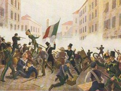 Milan (Italy) insurrezione 1848 . Popular image of that time celebrating the event